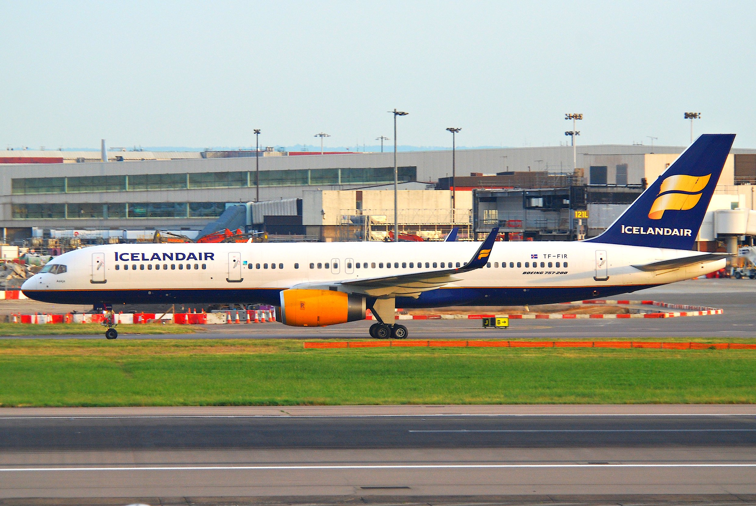 This Boeing 757-256 took its first flight on January 21, 1994... 27/07/1994 Iberia EC-608 31/10/1994 Iberia EC-FYJ named Venezuela 01/06/2002 Icelandair TF-FIR 01/07/2002 Aeromar Airlines TF-FIR suspended operations 26/12/03 - subleased from Icelandair 04/04/2004 Icelandair TF-FIR